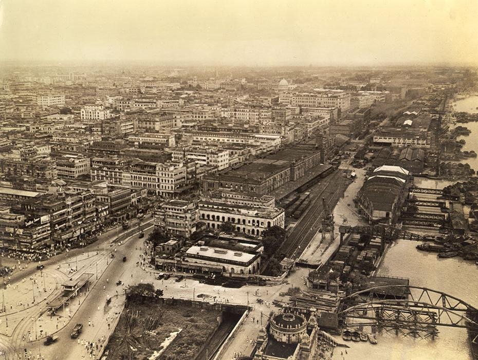 An aerial photo of Kolkata street from 1945 GI photo collection. Original description is "Aerial view of Calcutta downtown. In upper left background is Hindusthan building, U.S. Army HQ. The oldest part of the city starts at the esplanade and extends upwards. The city was founded in the early 1700's."